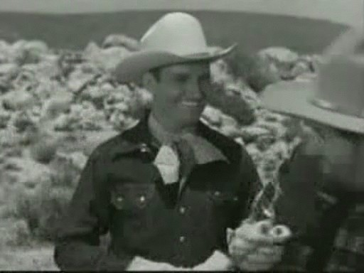 Gene Autry starring in the eposode "The Black Rider" from the television show The Gene Autry Show which originally aired on 22 October 1950.